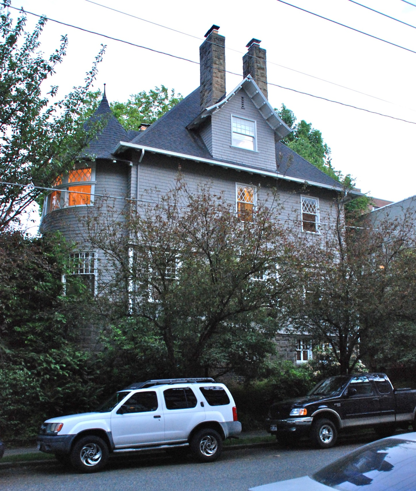 Side view, across Flanders Street, of the George F. Heusner House, in Portland, Oregon, which is listed on the National Register of Historic Places. It was built in 1894.